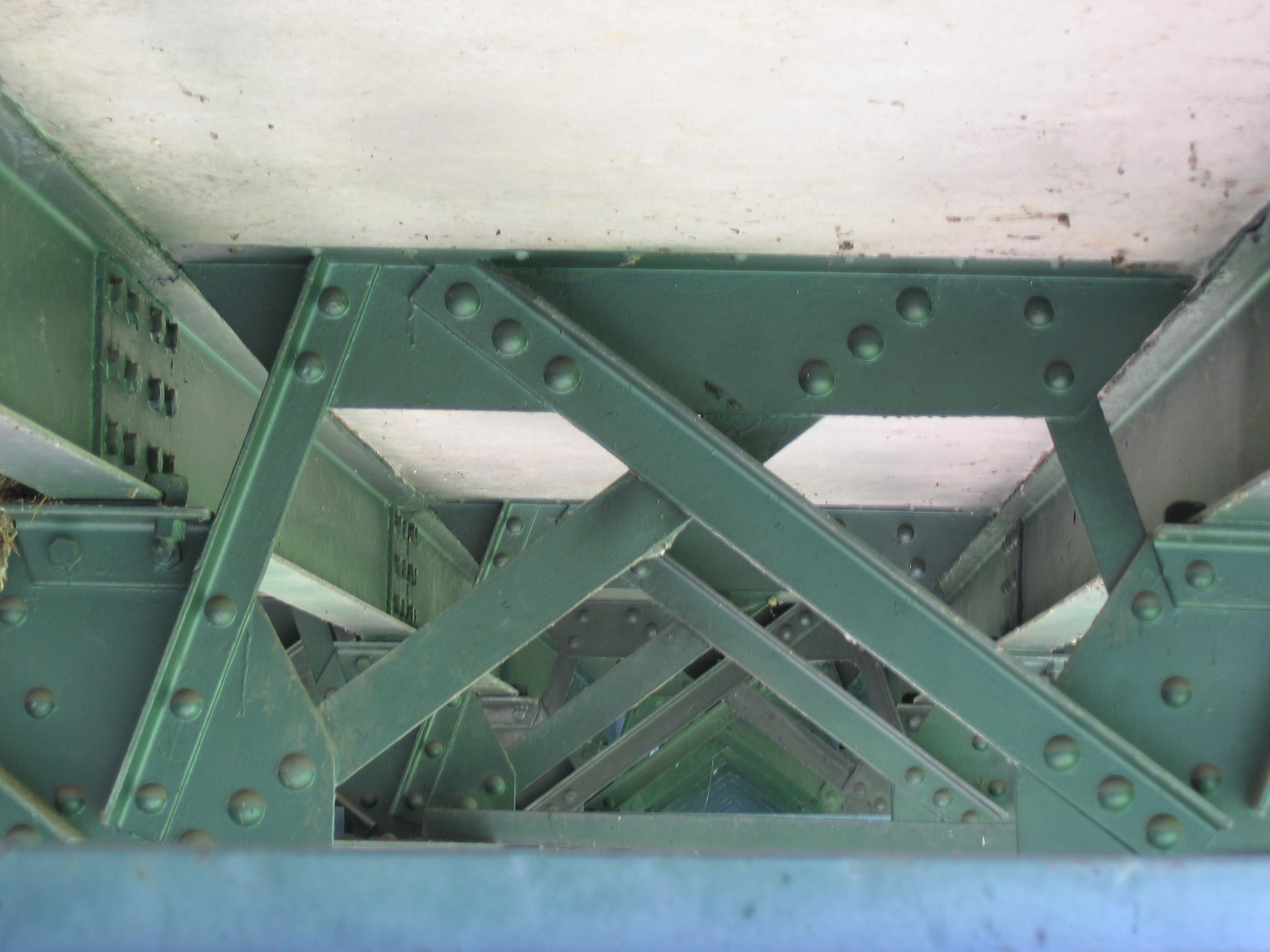 Germany - Baden-Württemberg - Bodenseekreis - Kressbronn/Langenargen: suspension bridge